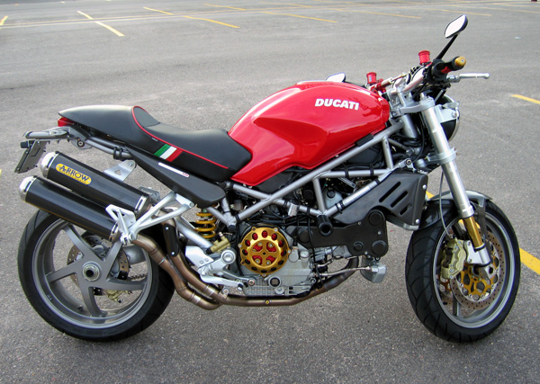 This is photograph of my Ducati Monster S4R that I took on 10-15-2005. S4R